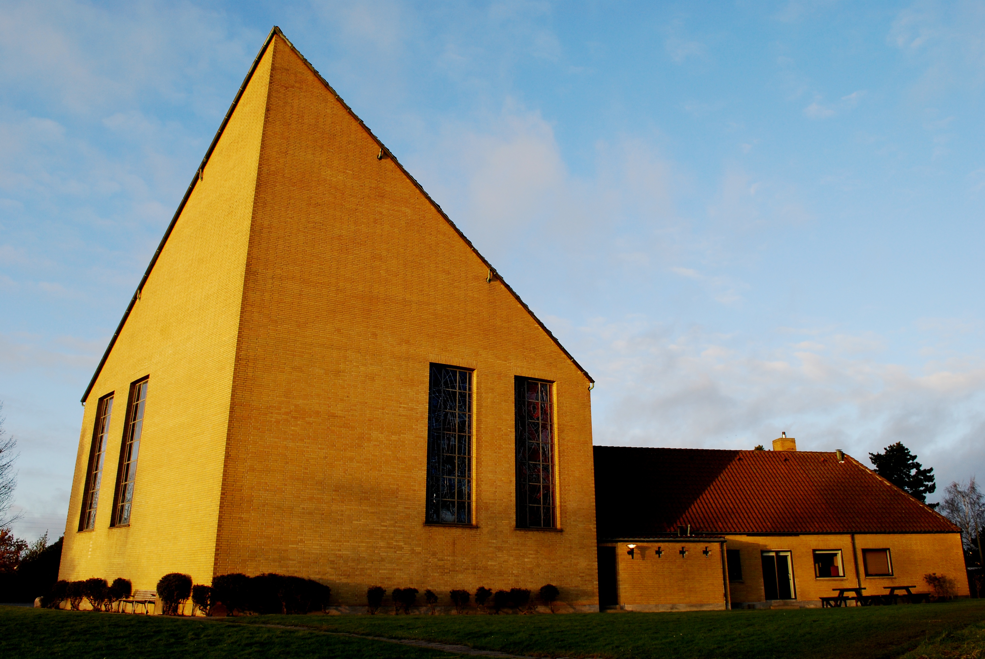 Sorgenfri Kirke, Virum, Copenhagen